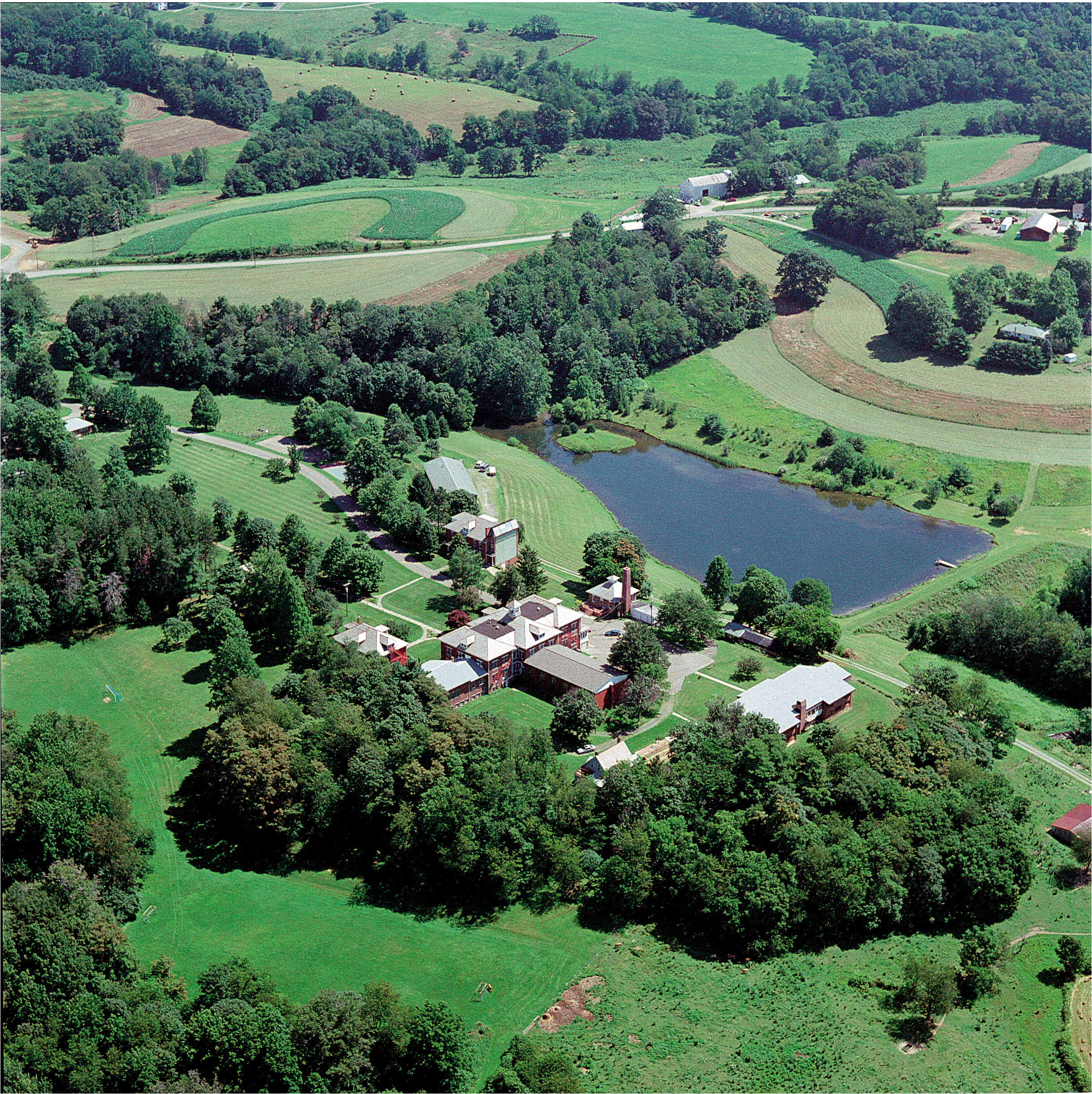 Aerial photograph of Olney Friends School looking from the southwest.